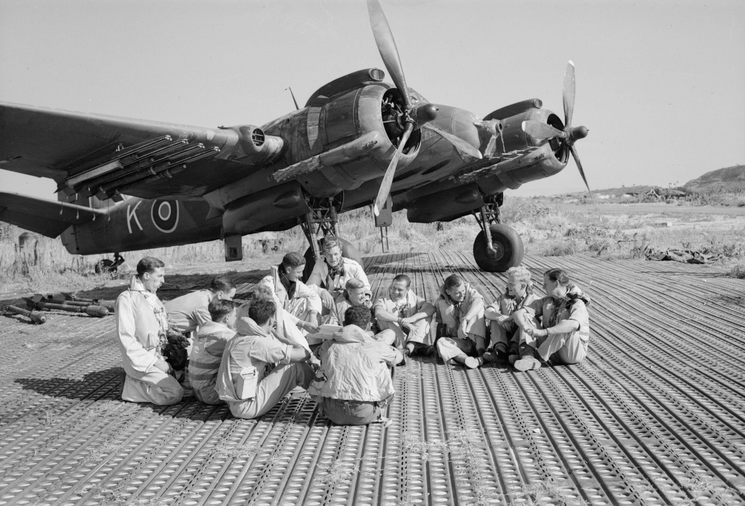 Aircrew of No. 16 Squadron SAAF and No. 227 Squadron RAF sitting in front of a Bristol Beaufighter at Biferno, Italy, prior to taking off to attack a German headquarters building in Dubrovnik, Yugoslavia, 14 August 1944. Aircrews of No. 16 Squadron SAAF and No. 227 Squadron RAF sitting in a dispersal at Biferno, Italy, prior to taking off to attack a German headquarters building in Dubrovnik, Yugoslavia. A Bristol Beaufighter Mark X, armed with rocket projectiles stands behind them.